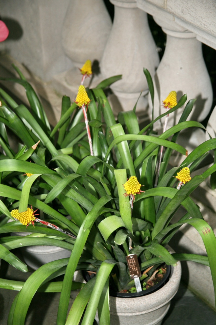 Aechmea calyculata; member of the Bromeliad family - Bromeliaceae